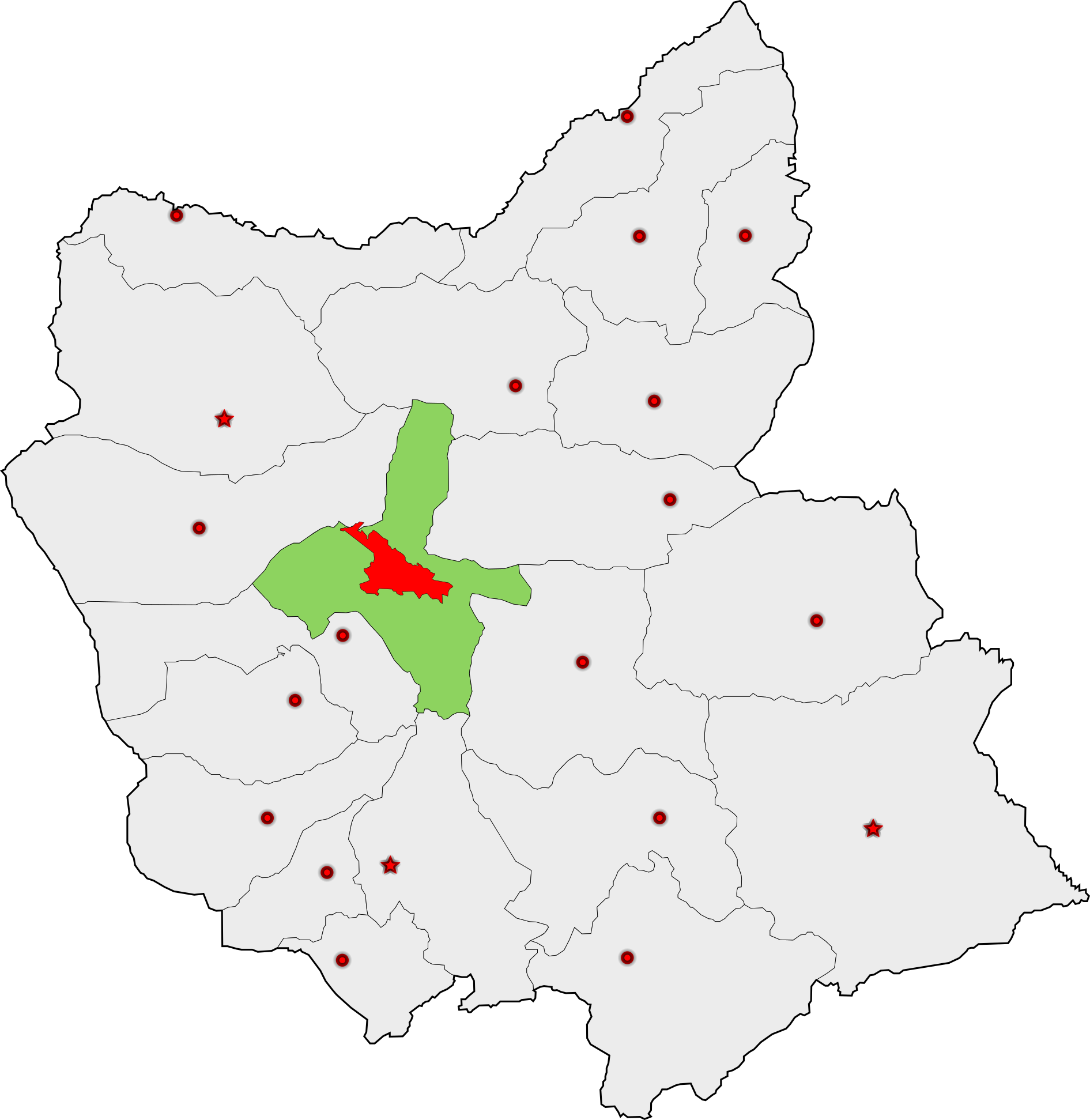 East Azarbaijan counties (shahrestan), divisions